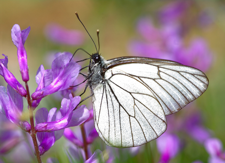 Wing underside view of a black-veined white butterfly (Aporia crataegi). Osmaniye, Turkey.